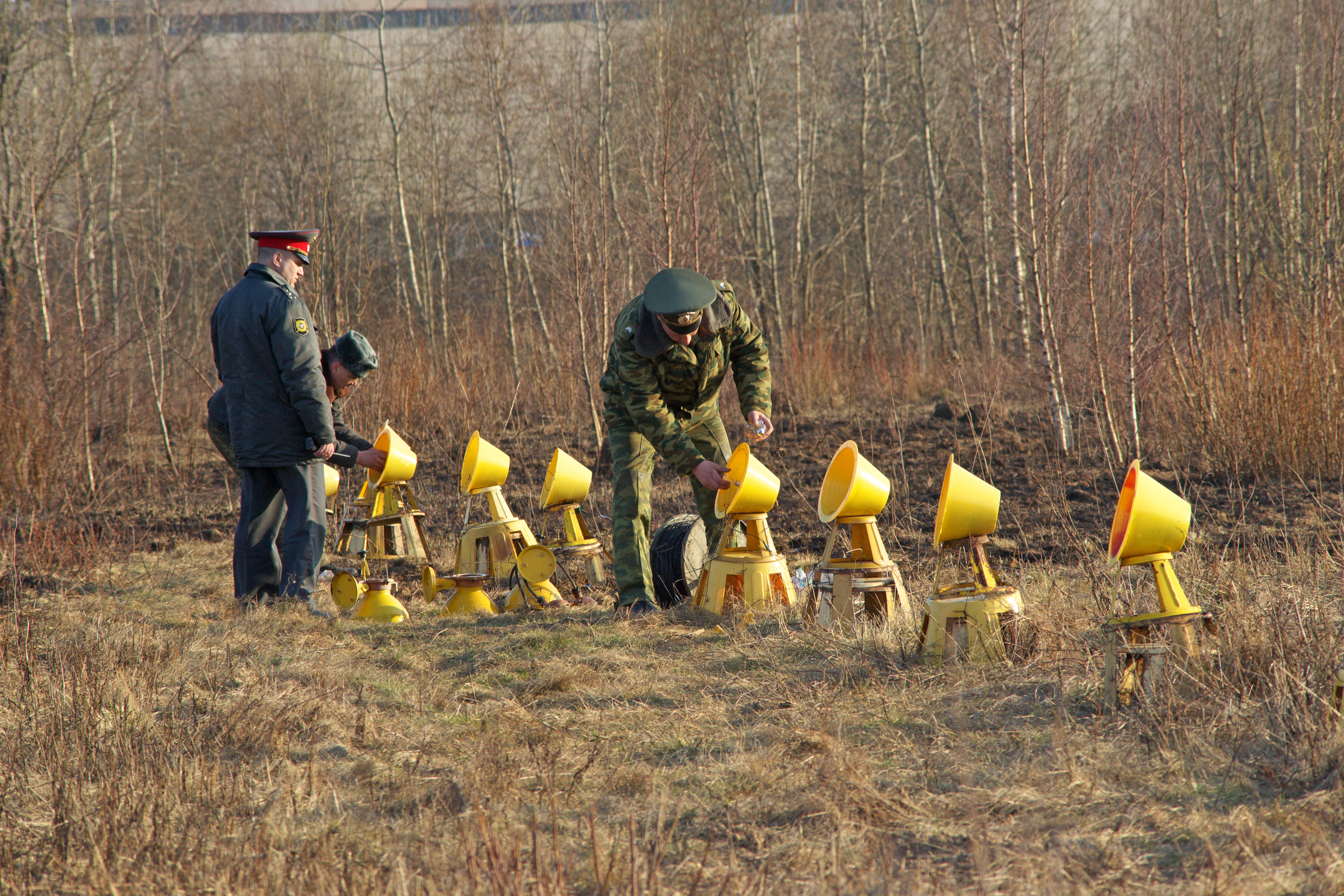 Russian military accompanied by a policeman twist bulbs into the signal lights of the landing strip airfield of Smolensk-North, several hours after the crash of Tu-154 Kaczynski